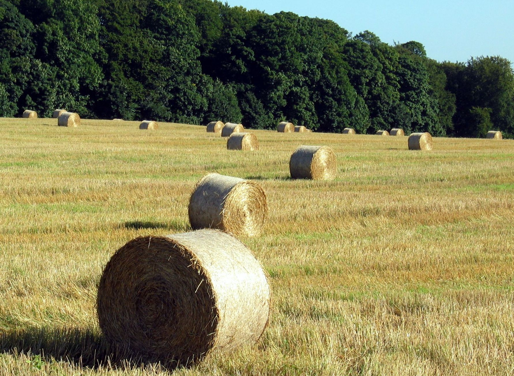 Straw compressed into rolls